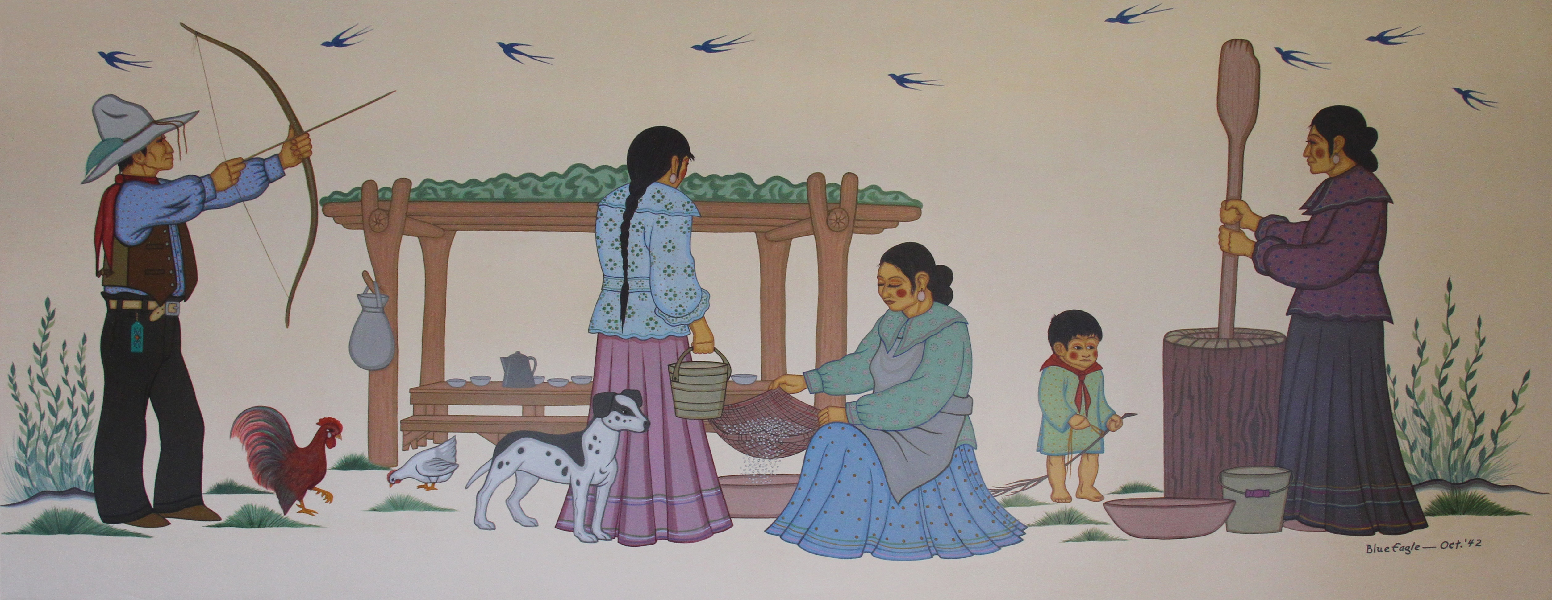 Photo of Coalgate Post Office Mural